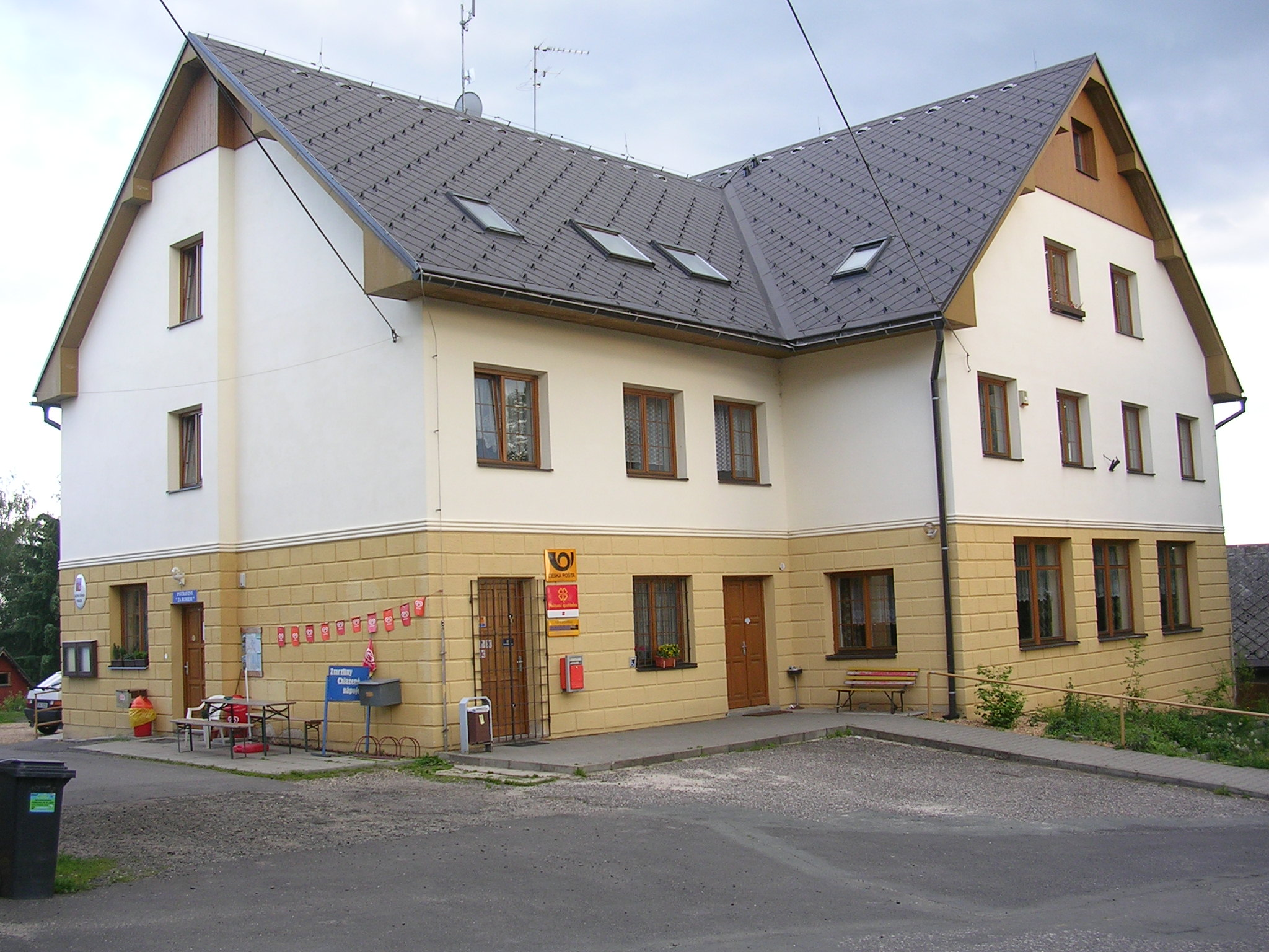 Vyskeř, Semily District, Liberec Region, the Czech Republic. A post office and municipal office.